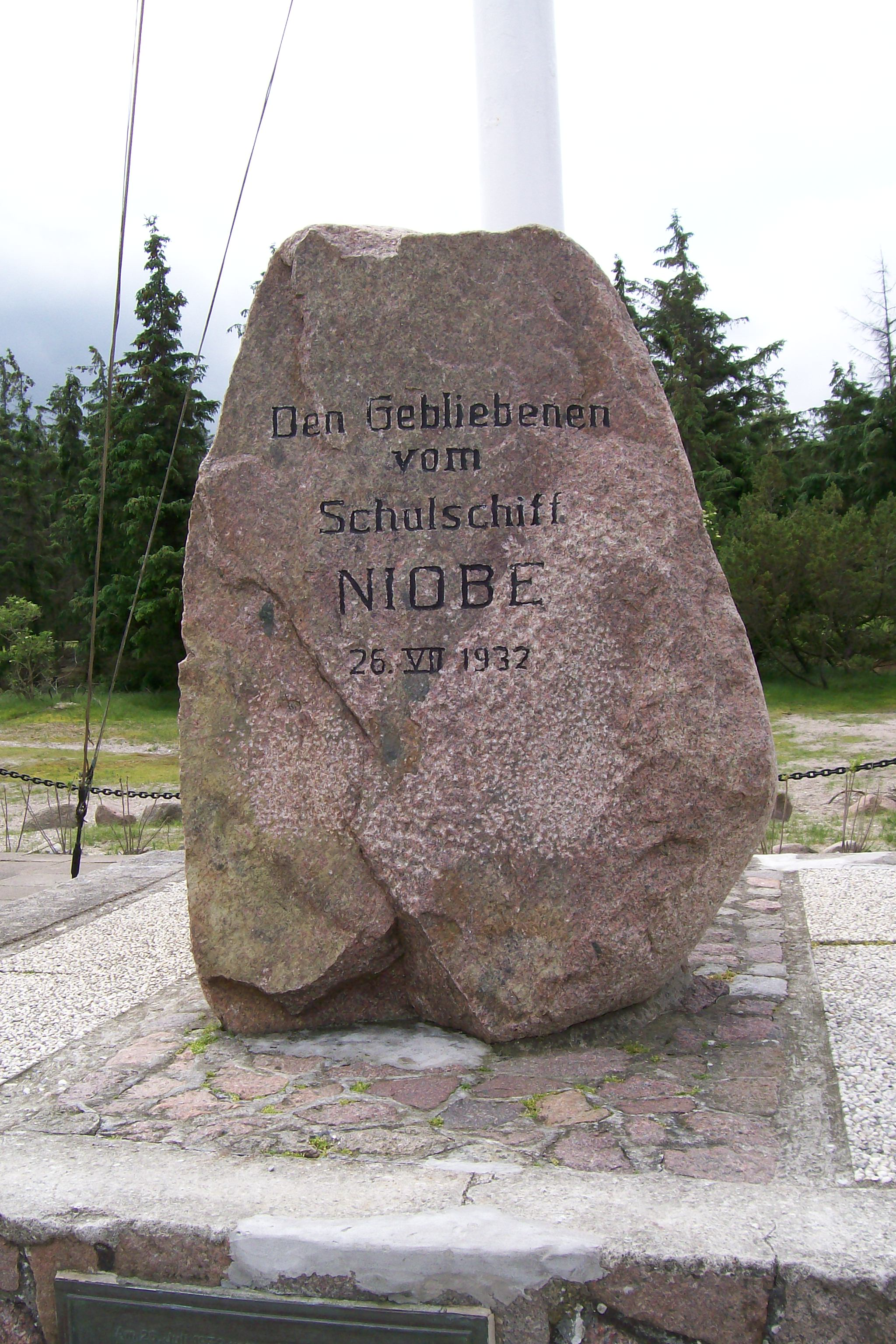 Niobe-Denkmal near Gammendorf, island Fehmarn, Schleswig-Holstein, Germany, to commemorate the loss of German Segelschulschiff Niobe in 1932